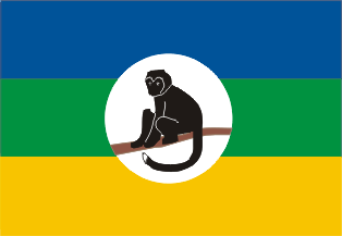 Flag of the Rwenzururu Secessionist Movement/Kingdom of Rwenzururu (1963-82) -- the Bakonjo people of the Ruwenzori Range, Uganda.